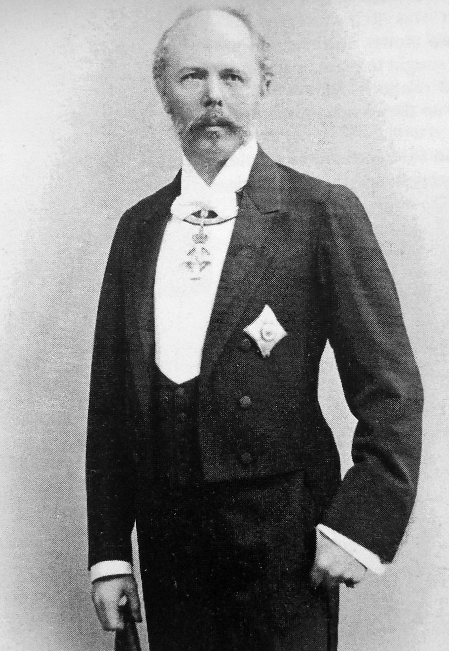 Charles II, Duke of Parma. Photograph c 1850